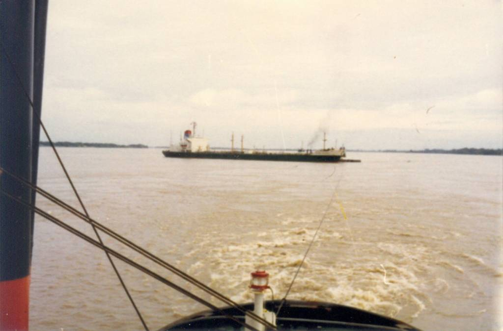 The oil ship Intermar Prosperity aground on Orinoco River in 1979.